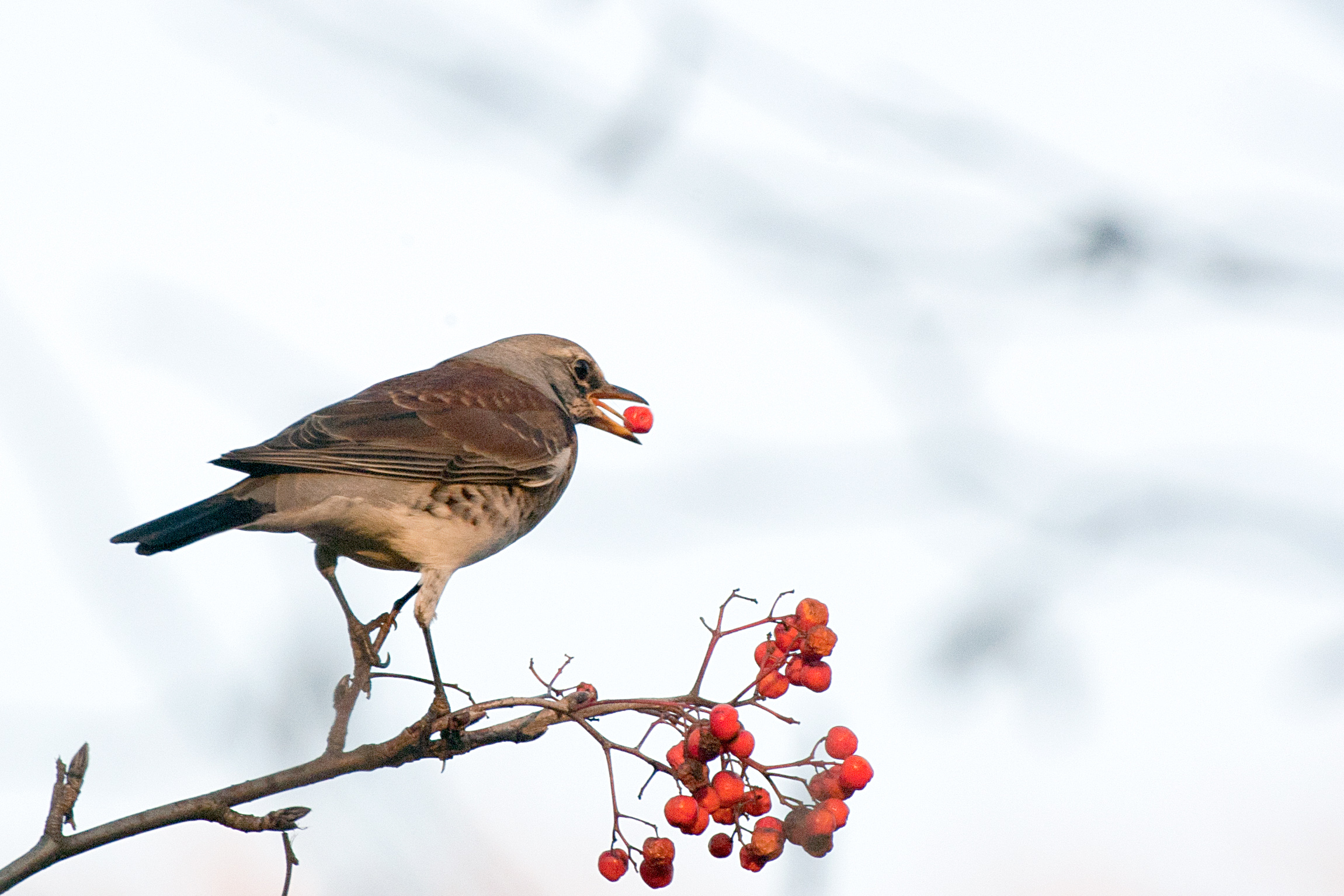 The Fieldfare, Lodz(Poland)